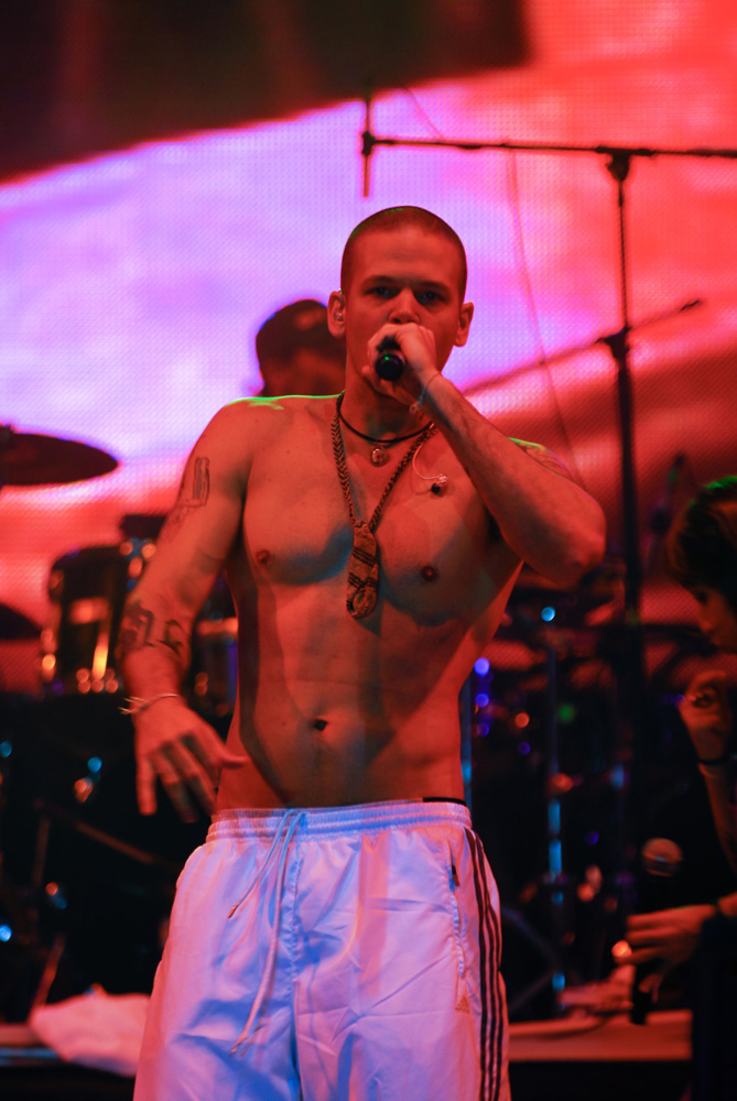 Residente of Calle 13 performing on August 29, 2009 at the Festival Afrocaribeño.